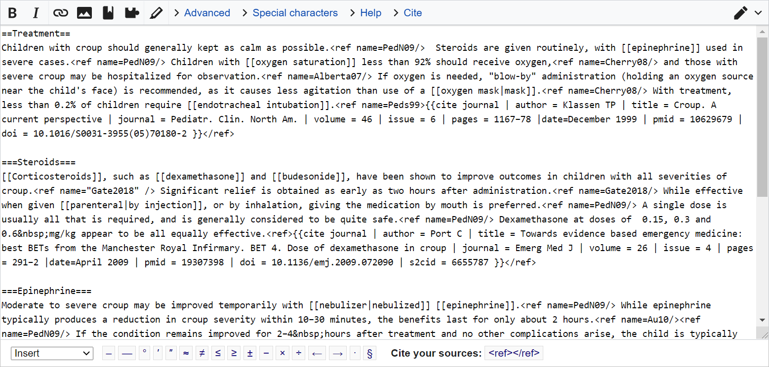 Screen capture of the edit box with wikimarkup, using Vector skin from August 2nd 2012.